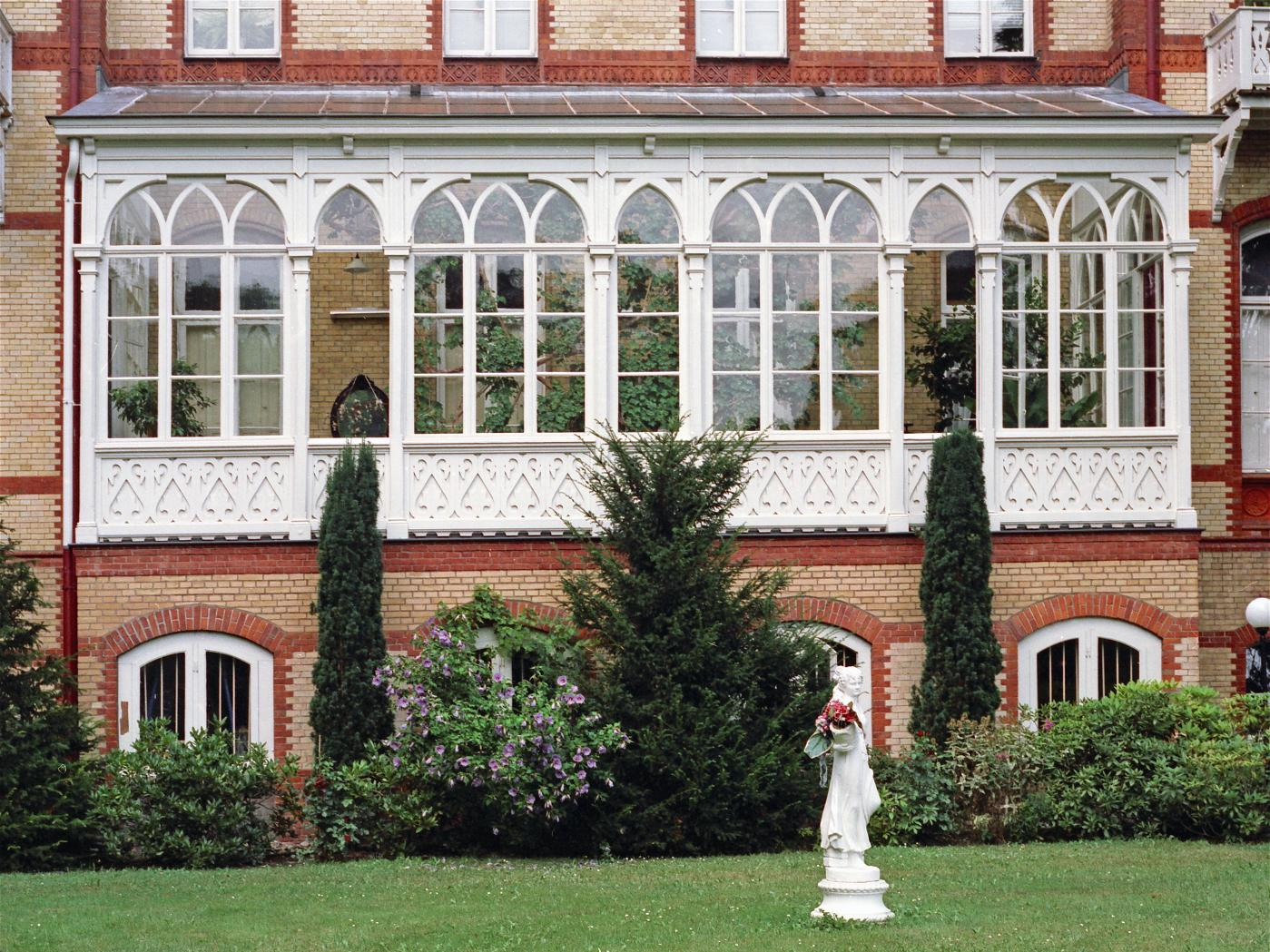 Moorrege (Schleswig-Holstein, Germany), “Düneck-Castle“, winter garden, photo: 1997